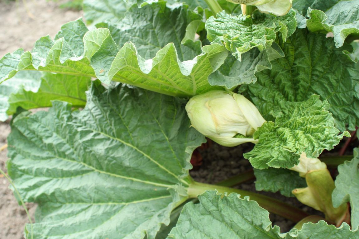 The flower of a Rhubarb. Four sequential photos: Image:Rhubarb-flower-1.jpg (this one) Image:Rhubarb-flower-2.jpg Image:Rhubarb-flower-3.jpg Image:Rhubarb-flower-4.jpg Photo of may 2006.